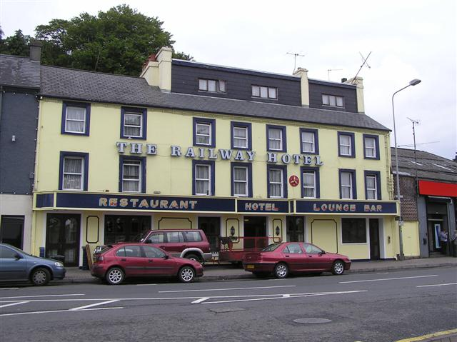 The Railway Hotel, Enniskillen It is located at Fort Hill Street